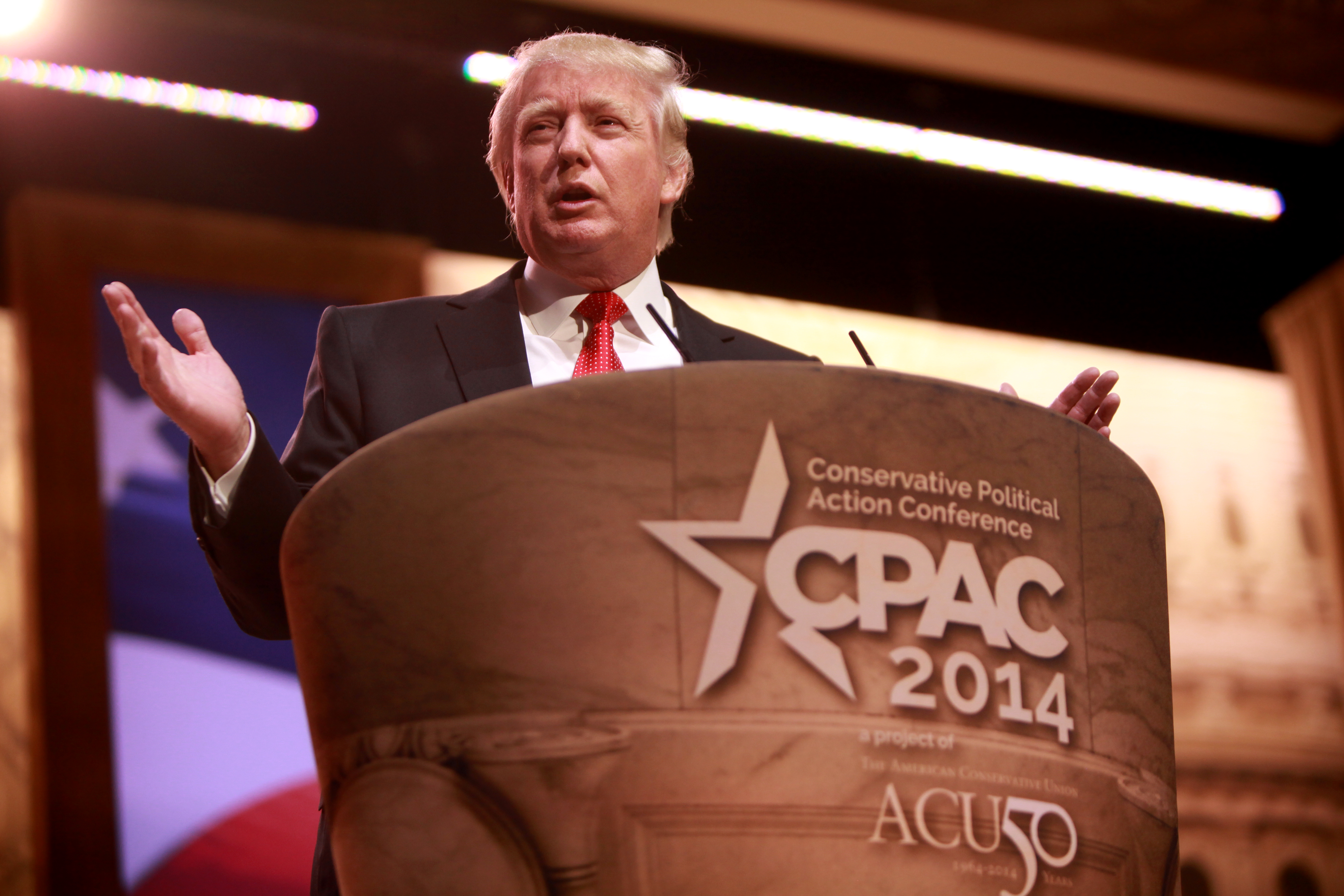 Donald Trump speaking at the 2014 Conservative Political Action Conference (CPAC) in National Harbor, Maryland.